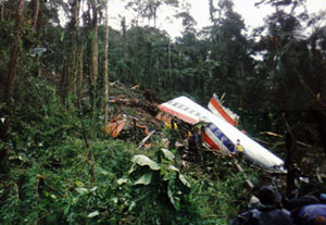 Photo of crash site